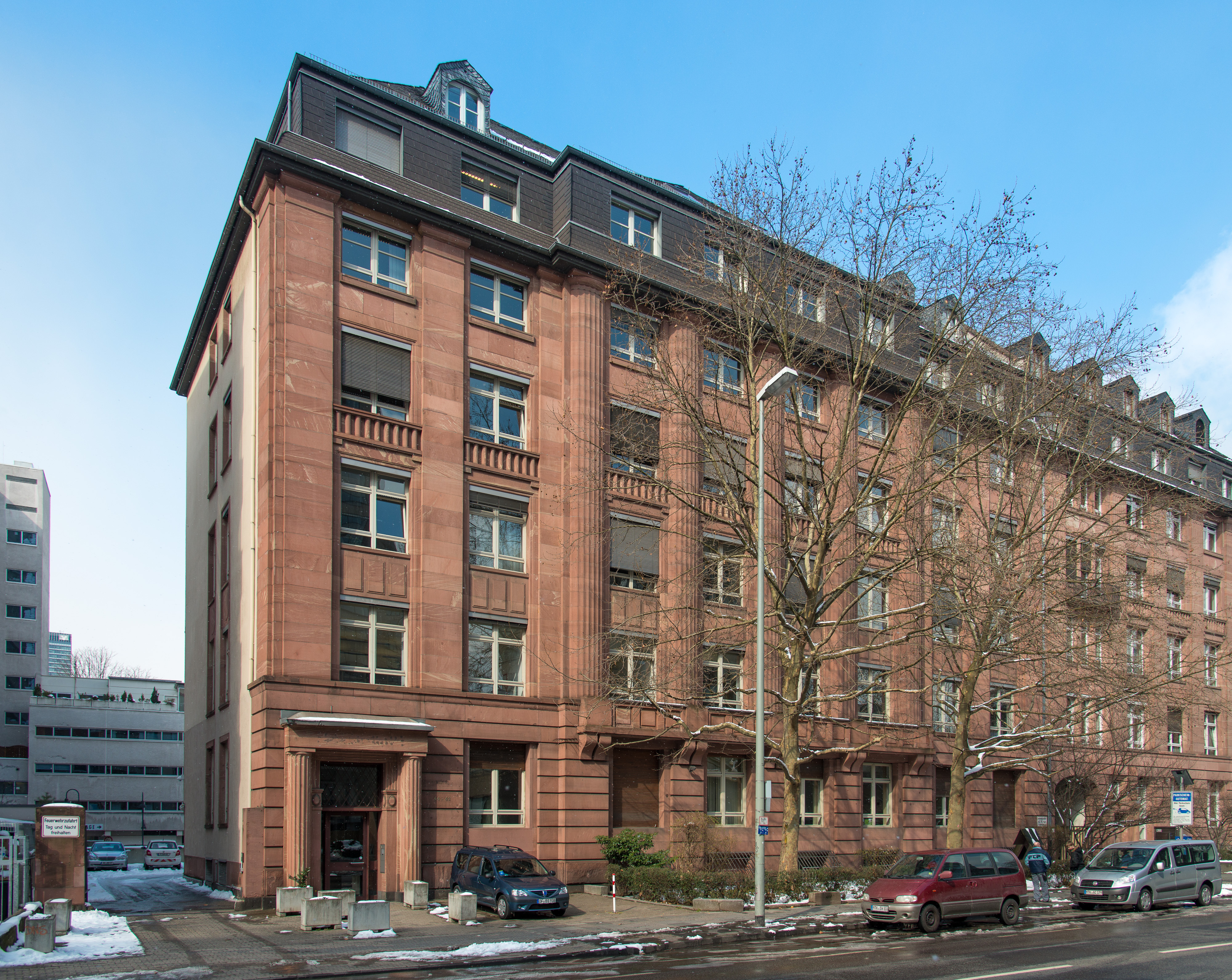 Frankfurt am Main, Gutleutstraße 42-44. Cultural monument of the city